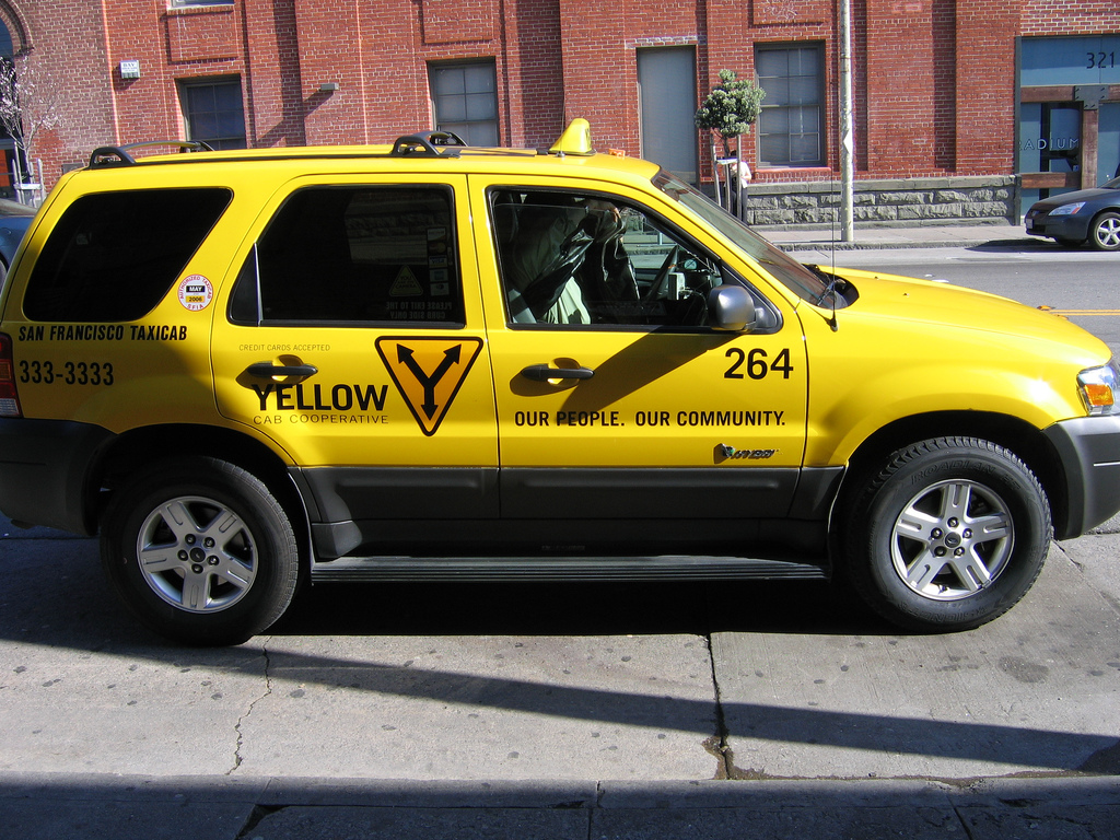 Ford Escape Hybrid taxi in San Francisco, California